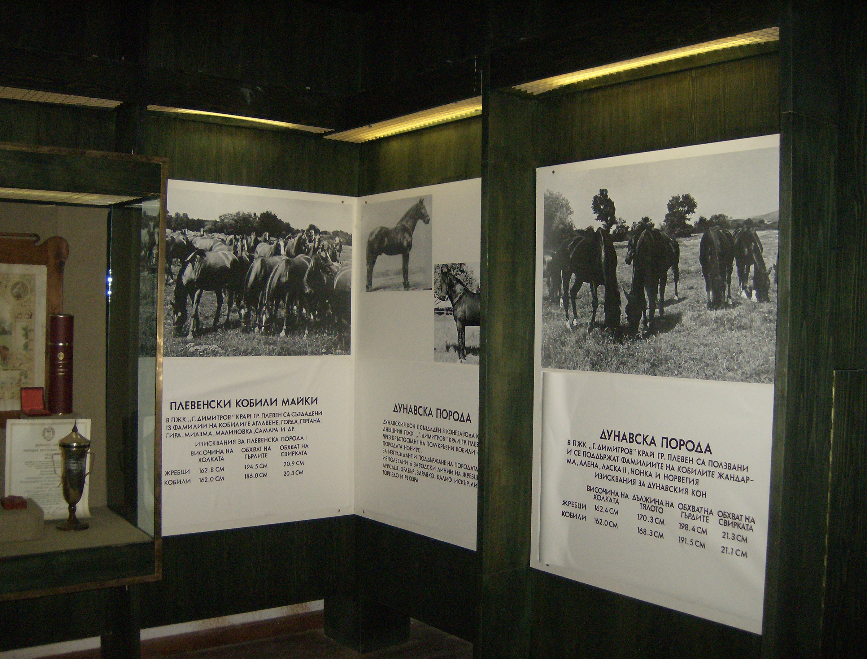 Horse museum Kabiuk